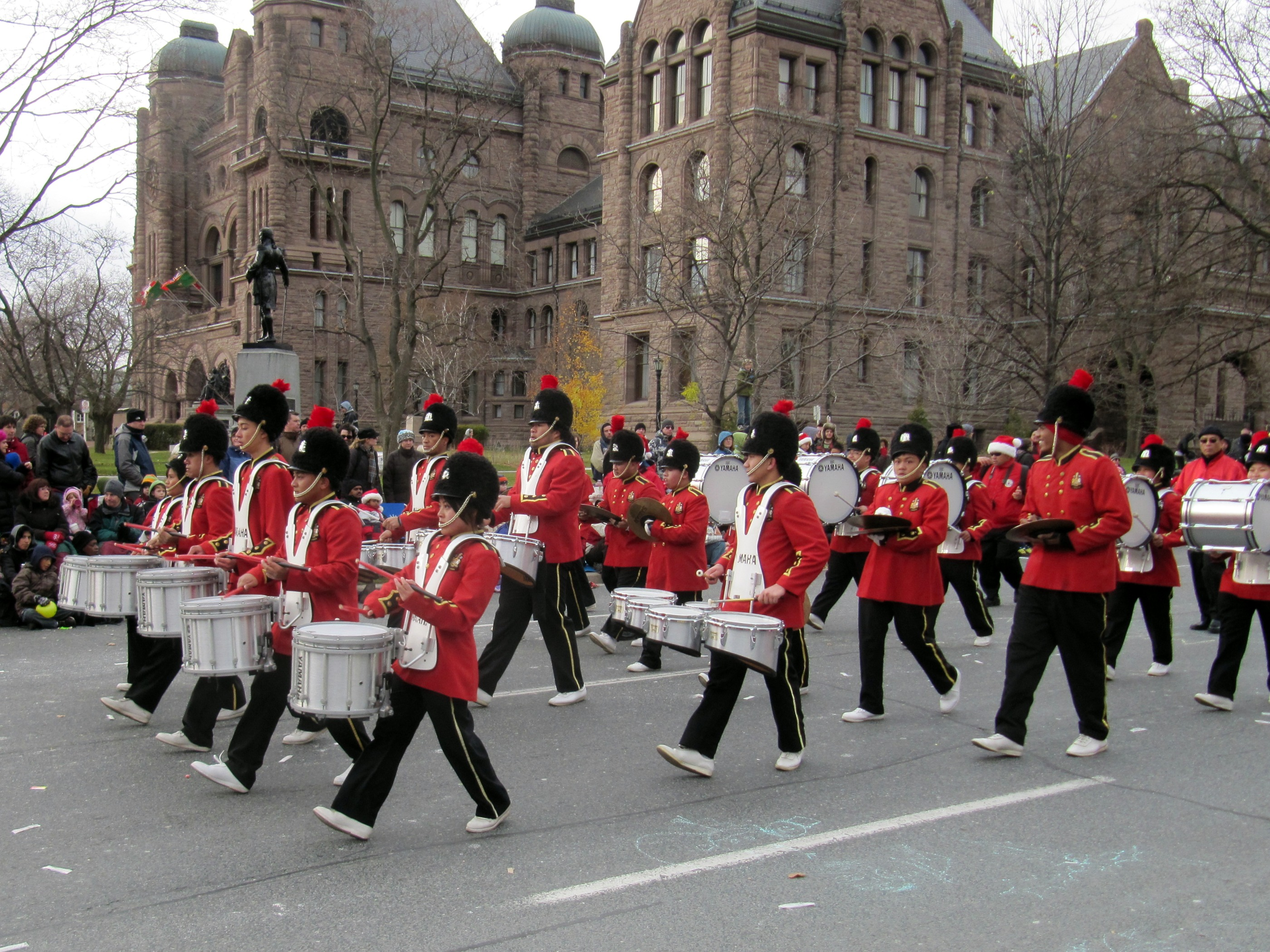 Marching band at the 2010 Santa Claus Parade in Toronto.